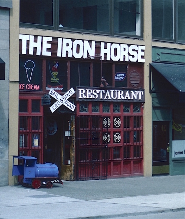 The Iron Horse Restaurant, in Seattle, in April 2000. The restaurant closed in November of that year, after almost 30 years in operation.